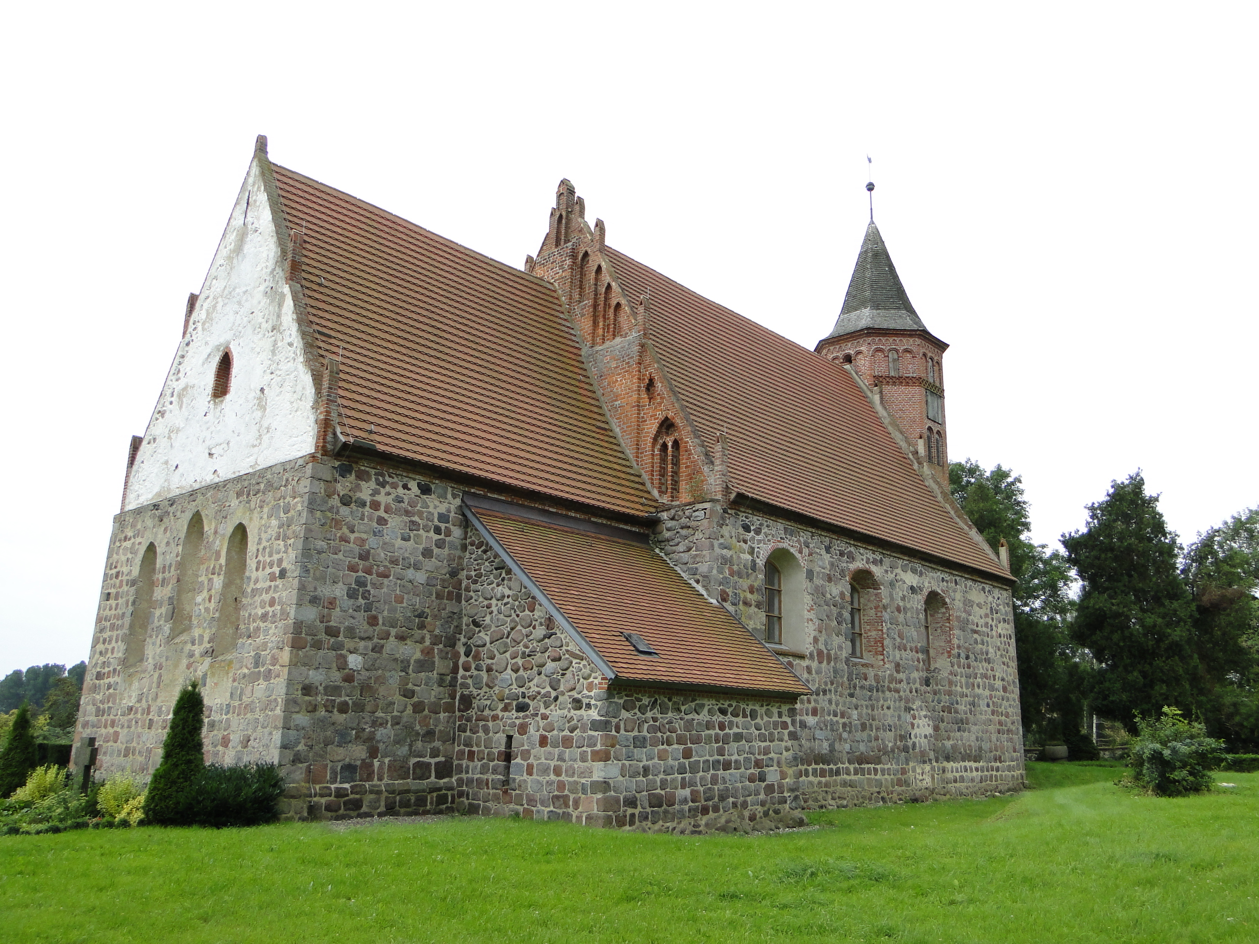 Church in Roga, district Mecklenburg-Strelitz, Mecklenburg-Vorpommern, Germany